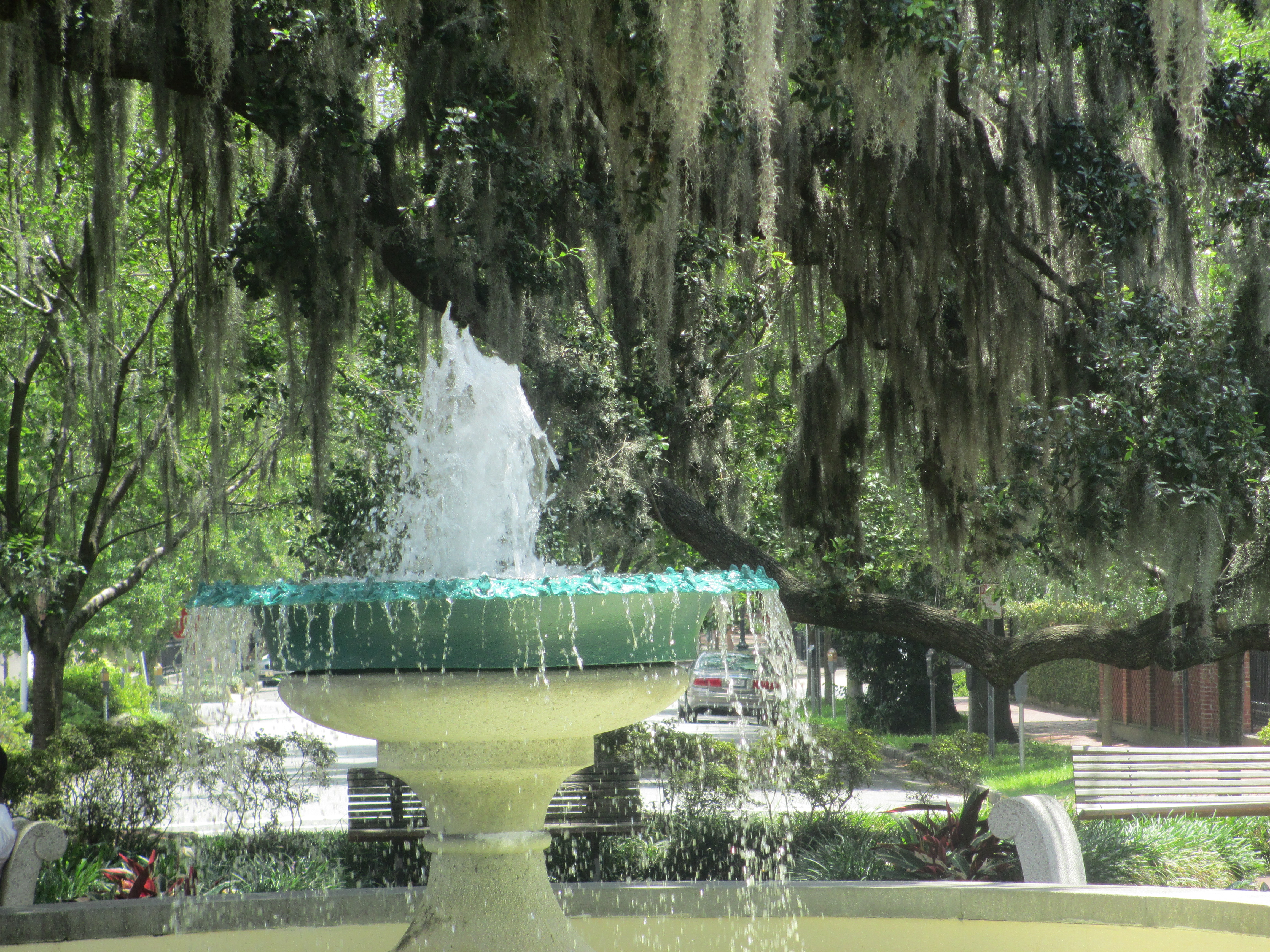 I took photo with Canon camera in Savannah, GA, of German Memorial Fountain.